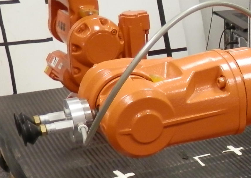 Vacuum end effector.